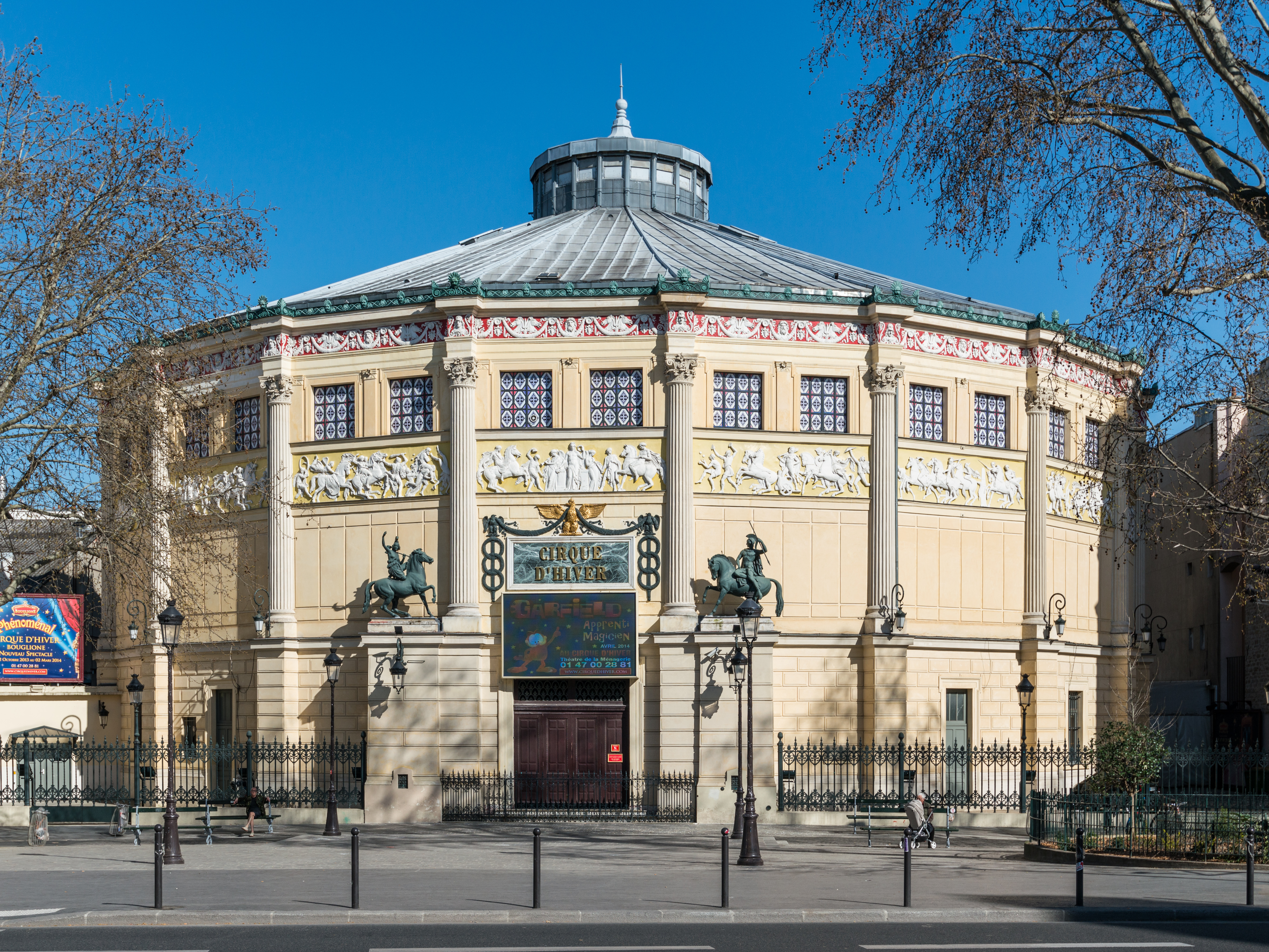 The Cirque d'hiver building in the 11th Arrondissement of Paris as seen from Rue des Filles du Calvaire